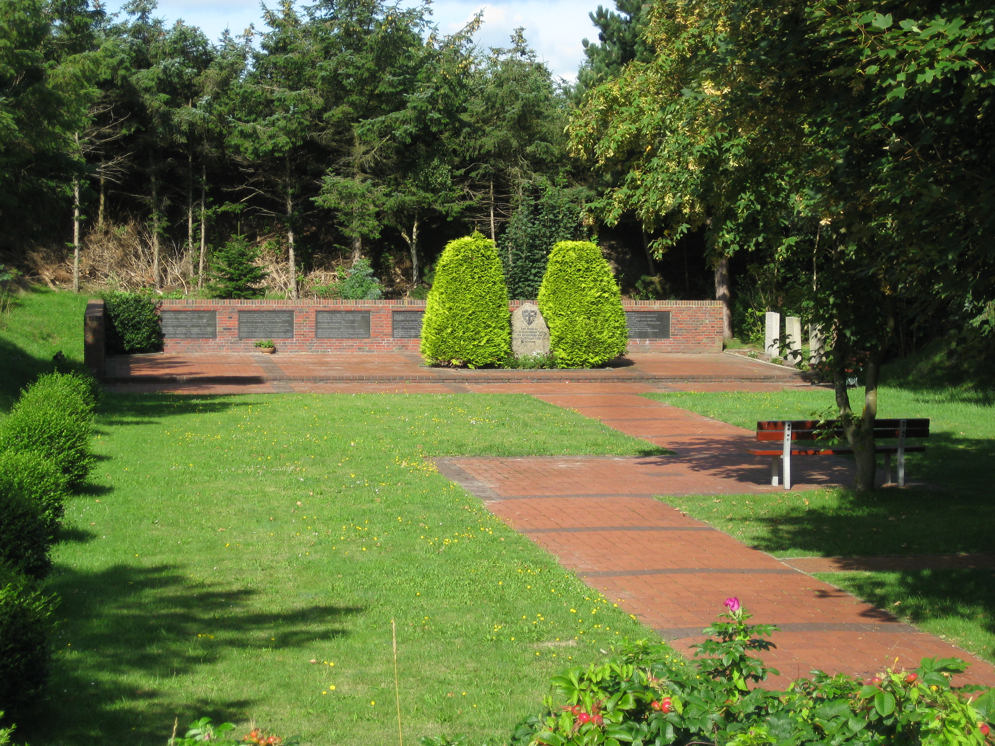 Langeoog - Memorial for Baltic refugees